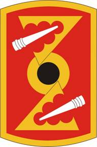 72nd Field Artillery Brigade shoulder sleeve insignia from